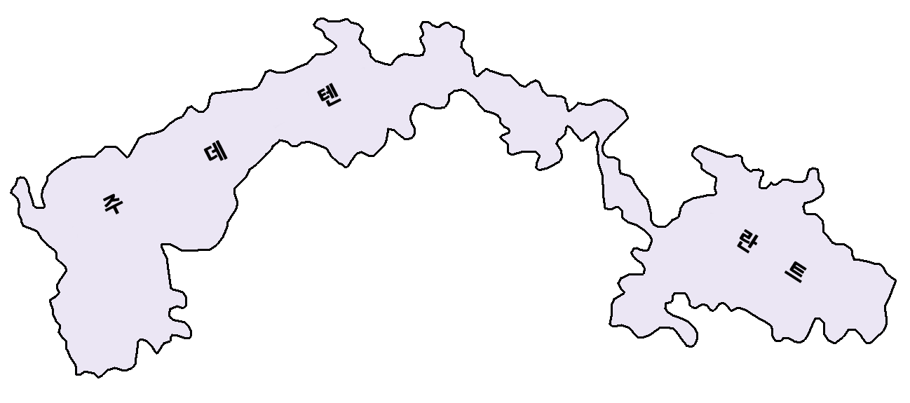 Map of Sudetenland